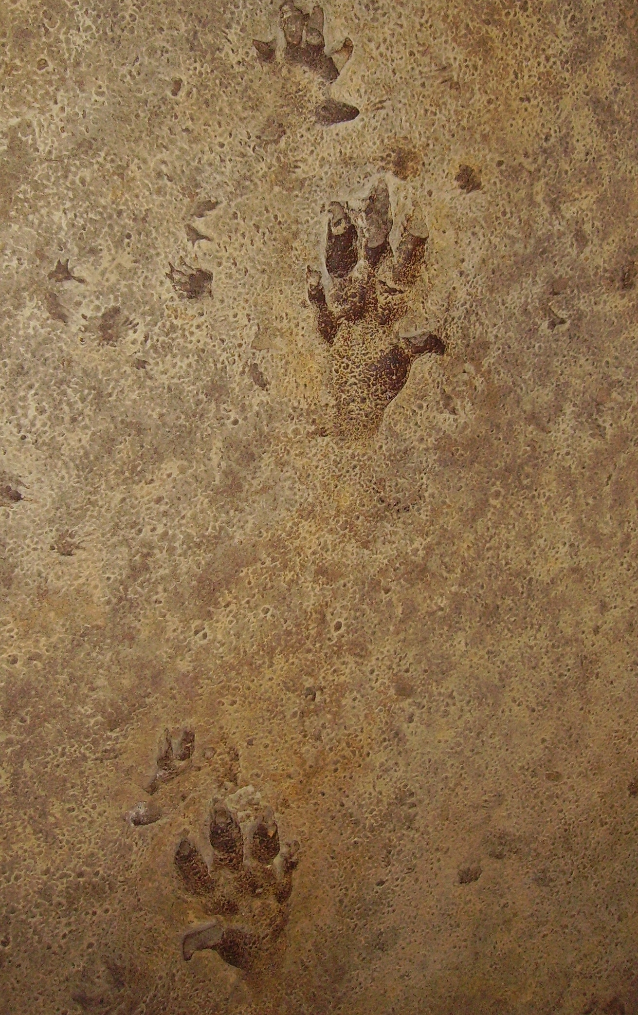 Sandstone slab with Chirotherium storetonense trackway, displayed in Oxford University Museum of Natural History (specimen number: G55). The slab is from the “upper footprint bed” of the Storeton Quarry near Bebington, Cheshire, about 5 km SW of Liverpool.[1] ↑ Geoffrey Tresise (2003): Chirotherium and the Quarry Men: The 1838 Discoveries at Storeton Quarry, Cheshire, U.K. Ichnos: An International Journal for Plant and Animal Traces. 10: 77-90 (slab is figured therein on p. 84, fig. 10)